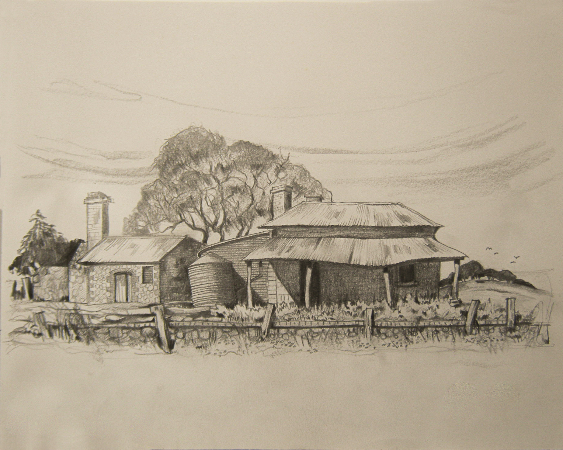 Pencil drawing of a cottage at Marananga South Australia by Ian Sprague 1992; photographed in a private collection at Elwood Victoria.